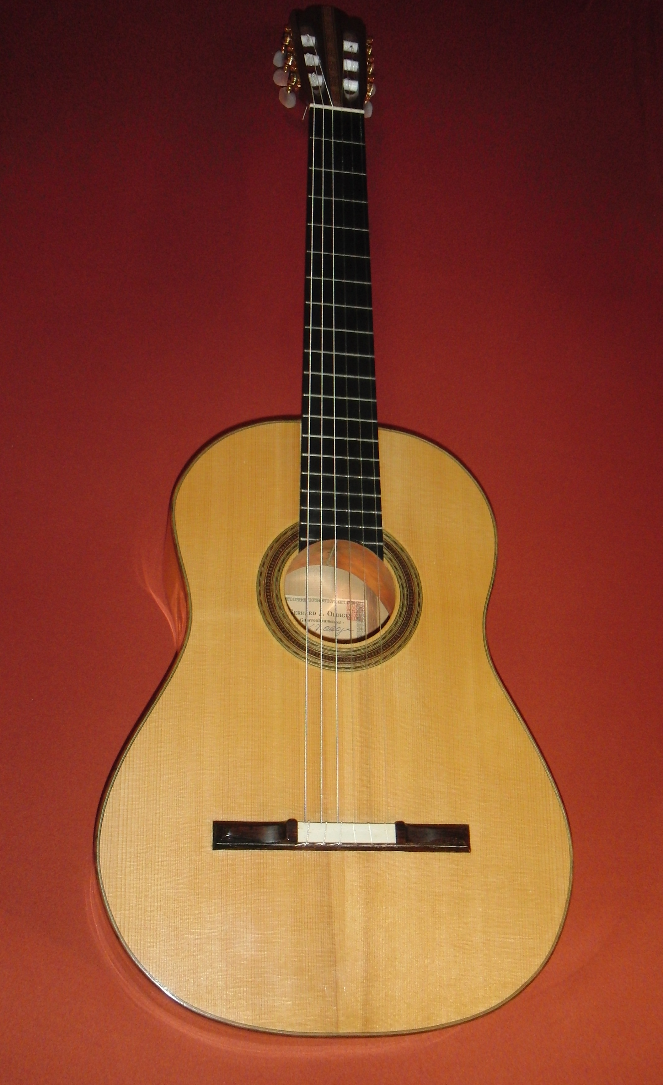 Antonio de Torres “La Leona” replica by Gerhard Oldiges